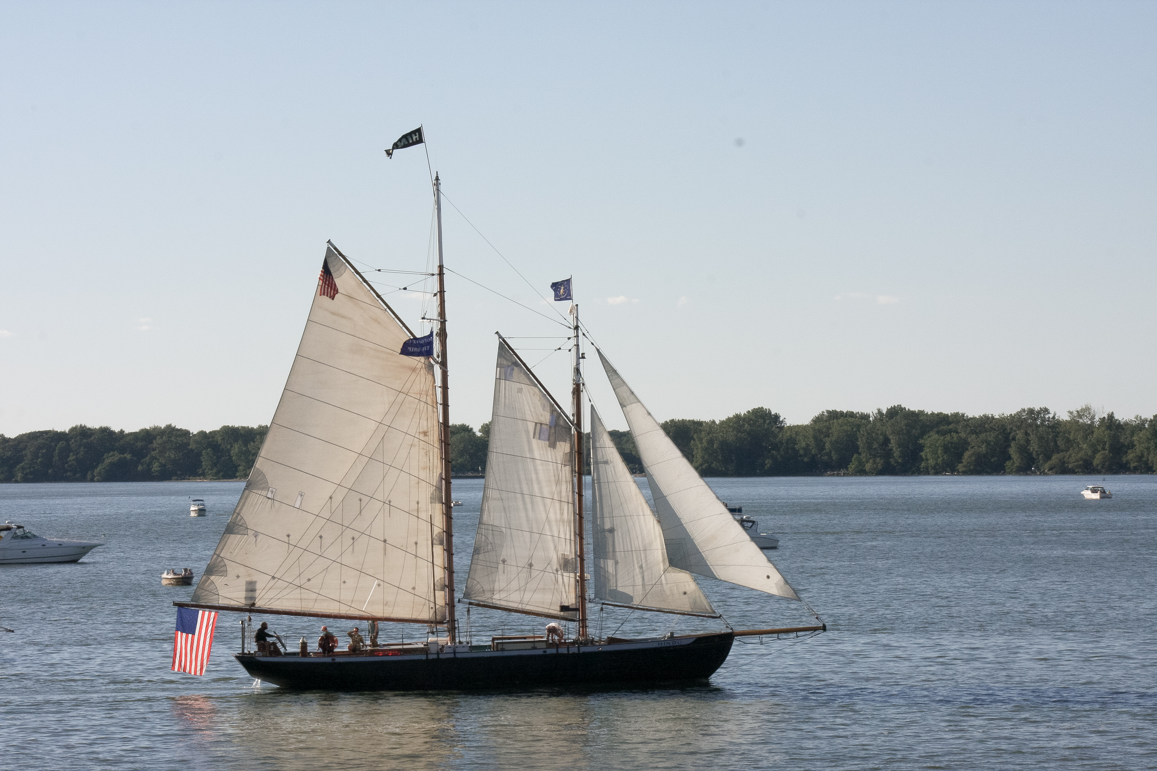 Schooner Hindu at the Tall ships Welcome Parade, Erie PA, Dobbins Landing 2013